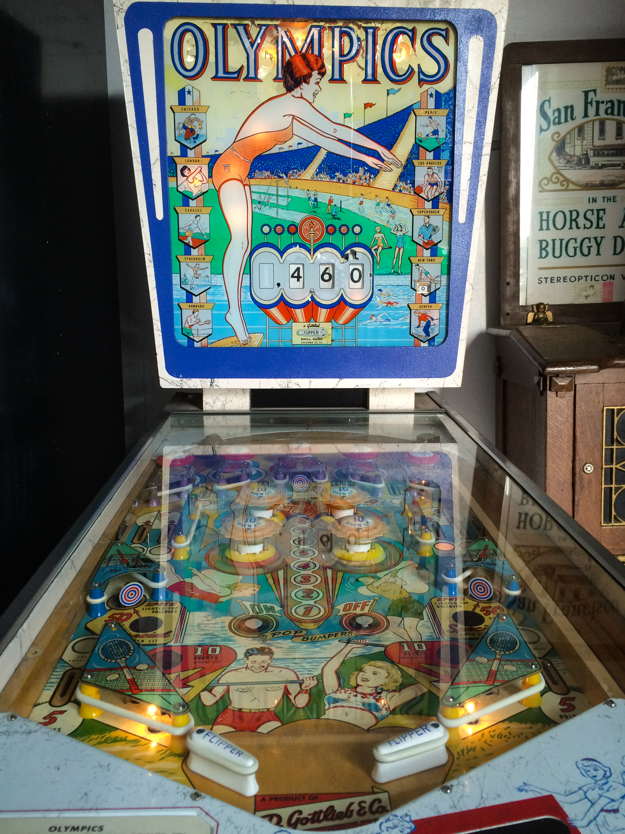 Olympics pinball at Musee Mecanique.